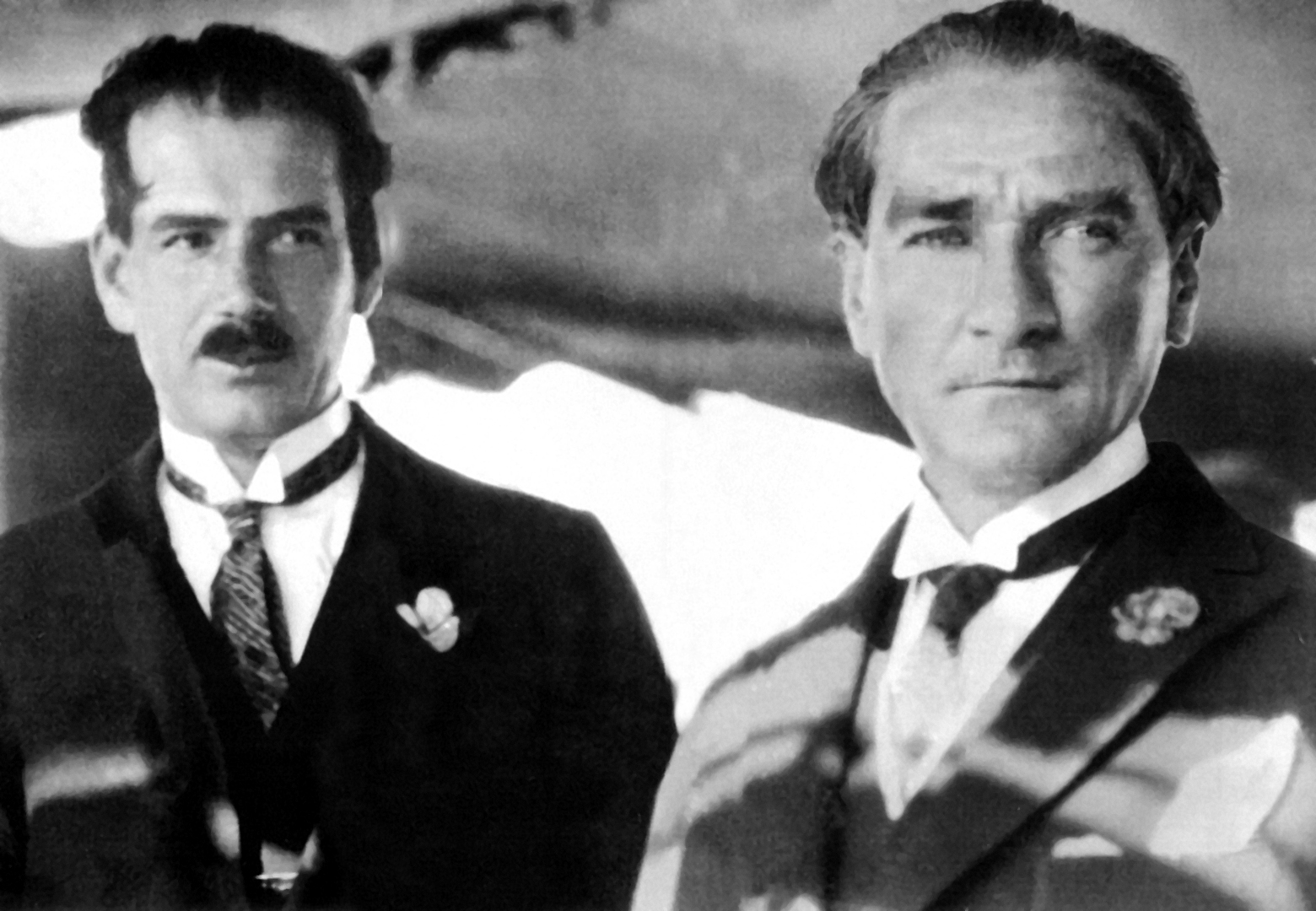 Ruşen Eşref (Ünaydın) and Mustafa Kemal (Atatürk) on the deck of Ertuğrul yacht on June 5, 1928.